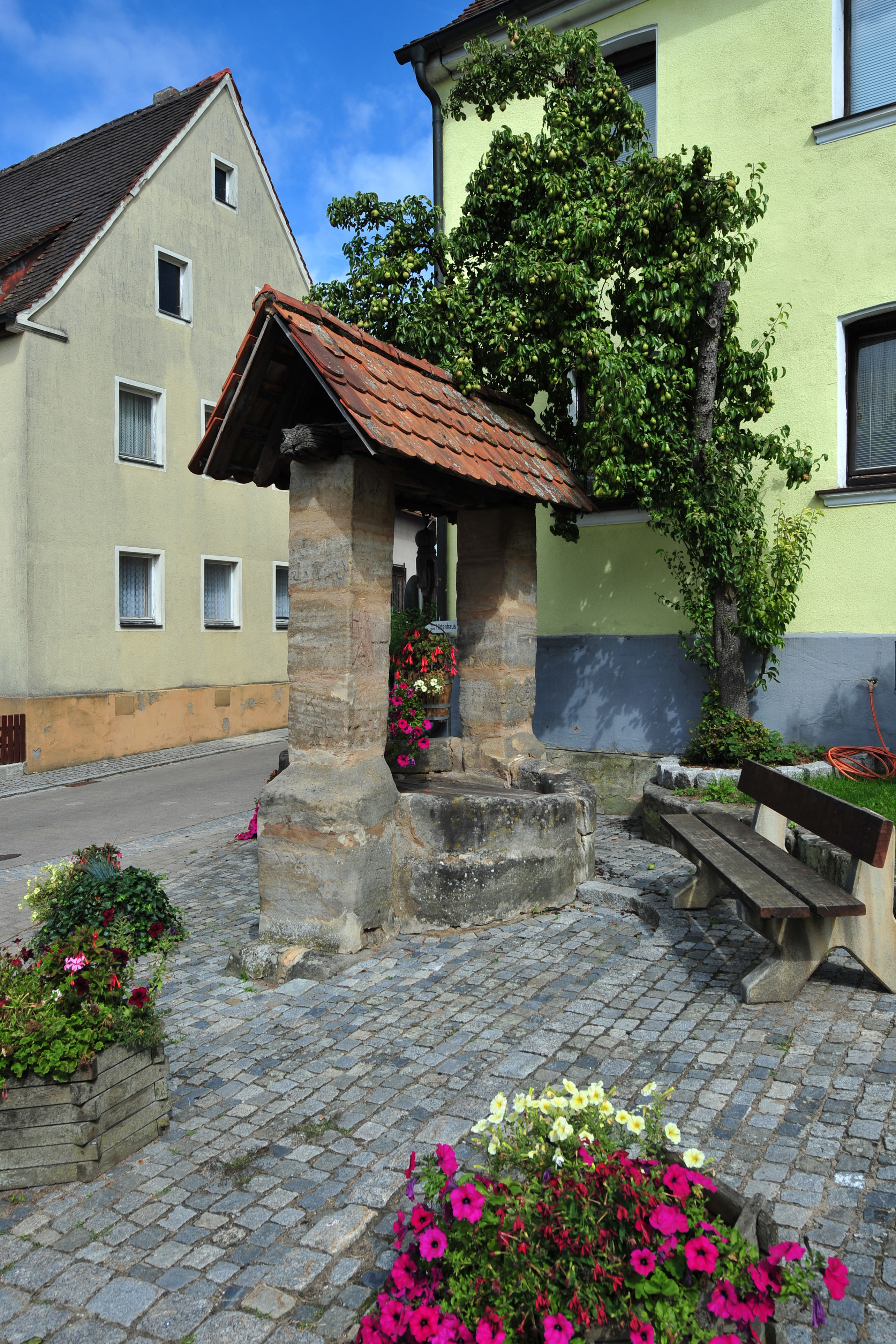 Kalchreuth-Röckenhof: Ziehbrunnen This is a photograph of an architectural monument.